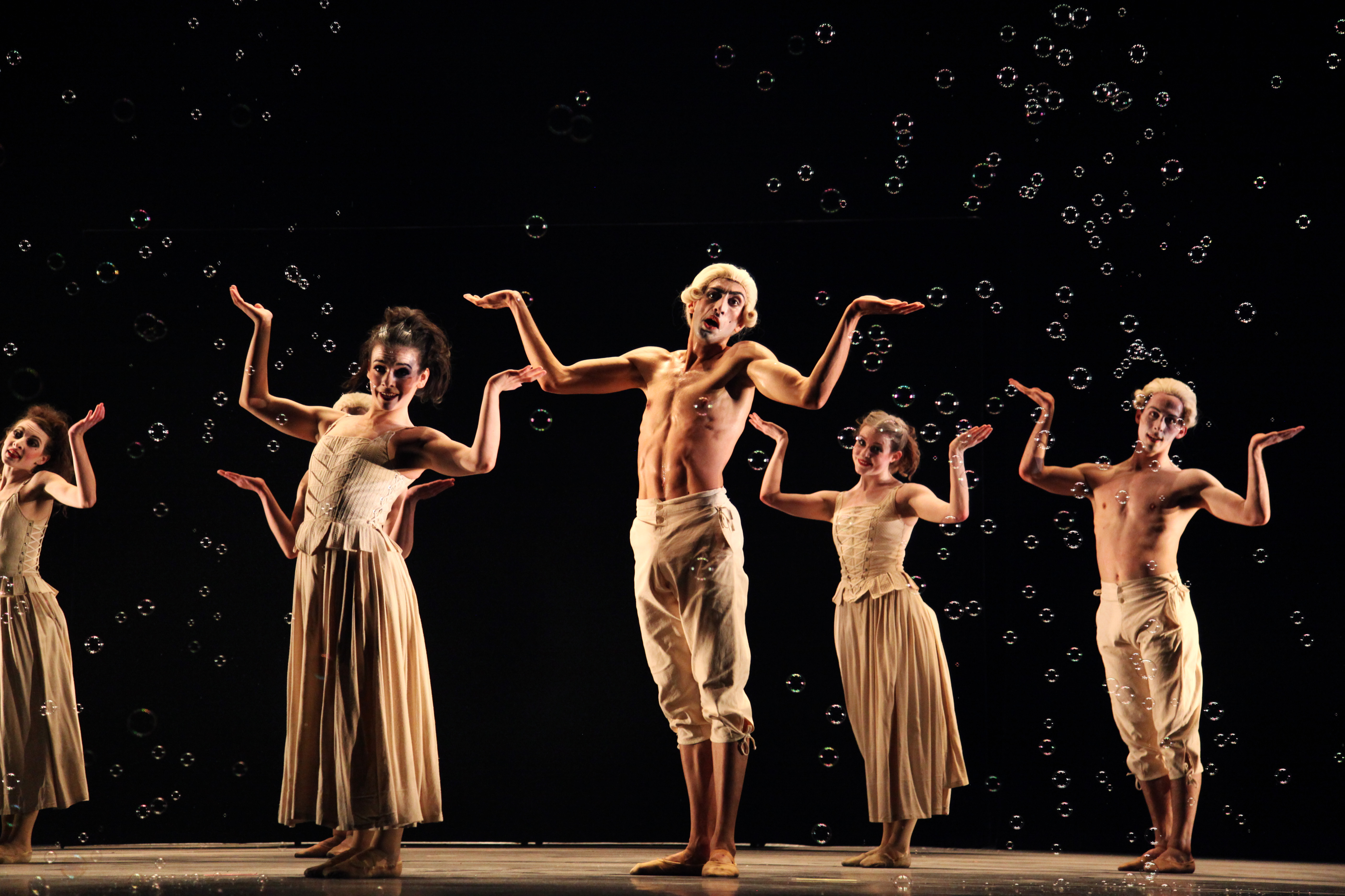 The Alabama Ballet: Six Dances - Jiri Kylian